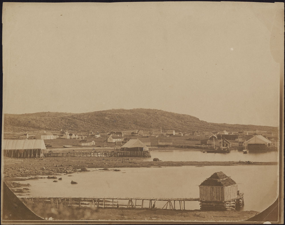 French fishing station, Conche, Newfoundland, 1859.